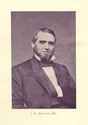 Alexander Kelly McClure (January 9, 1828 – June 6, 1909) was an American journalist, editor, writer, politician, and historian.